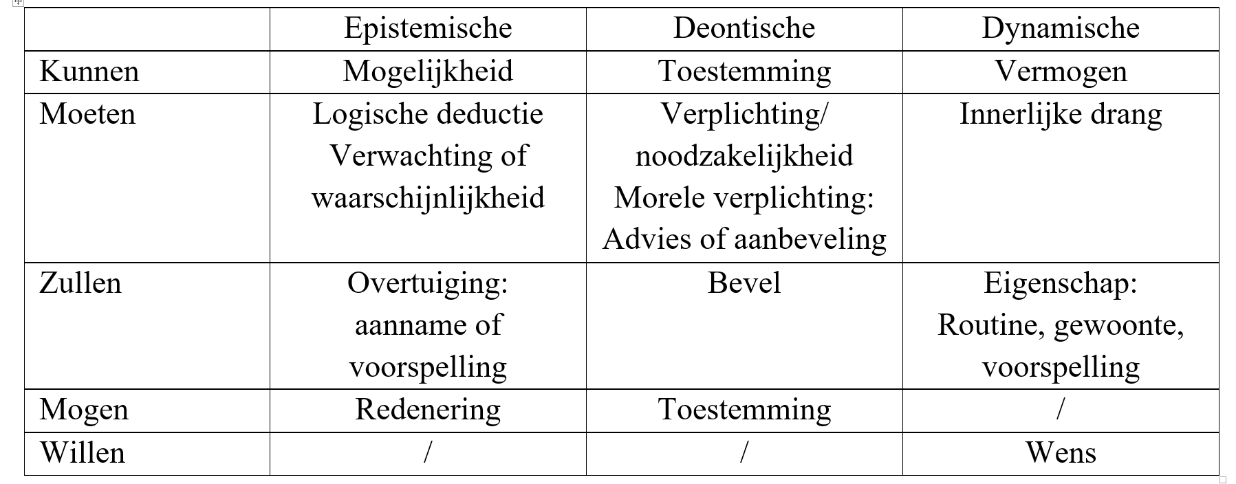 meanings of several modal auxiliaries in Dutch